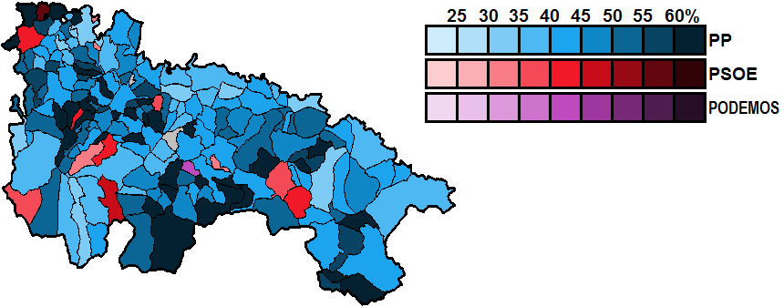 Most-voted party in La Rioja municipalities, showing vote share obtained, in the Spanish general election, 2015.